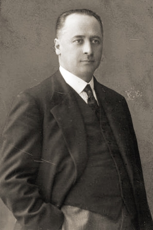 Leopold Skulski Prime minister of Poland 1919- 1920. After Soviet invasion of Poland 1939, arrested by Soviet NKVD, died in prison